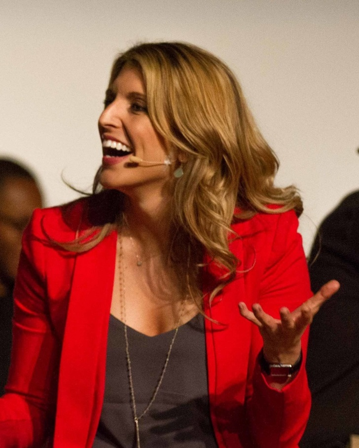 Janine DiVita, a Broadway actress and humanitarian, plays the role of victim of a sexual assault during a prevention education performance to kick off Sexual Assault Awareness Prevention Month at the Joint Base Lewis-McChord Carey Theater, April 1, 2016.